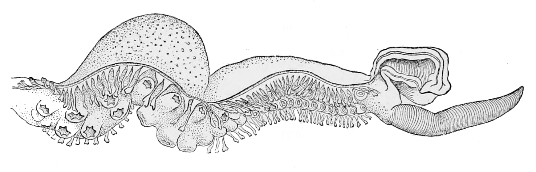 Young male of Haliphron atlanticus